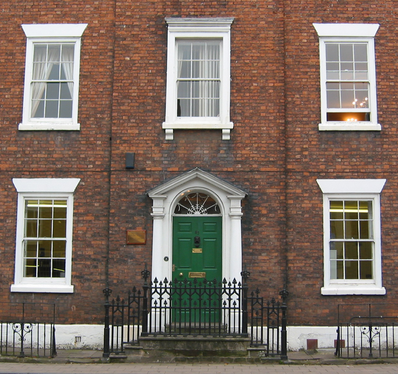 Detail of 83 Welsh Row, Nantwich, Cheshire